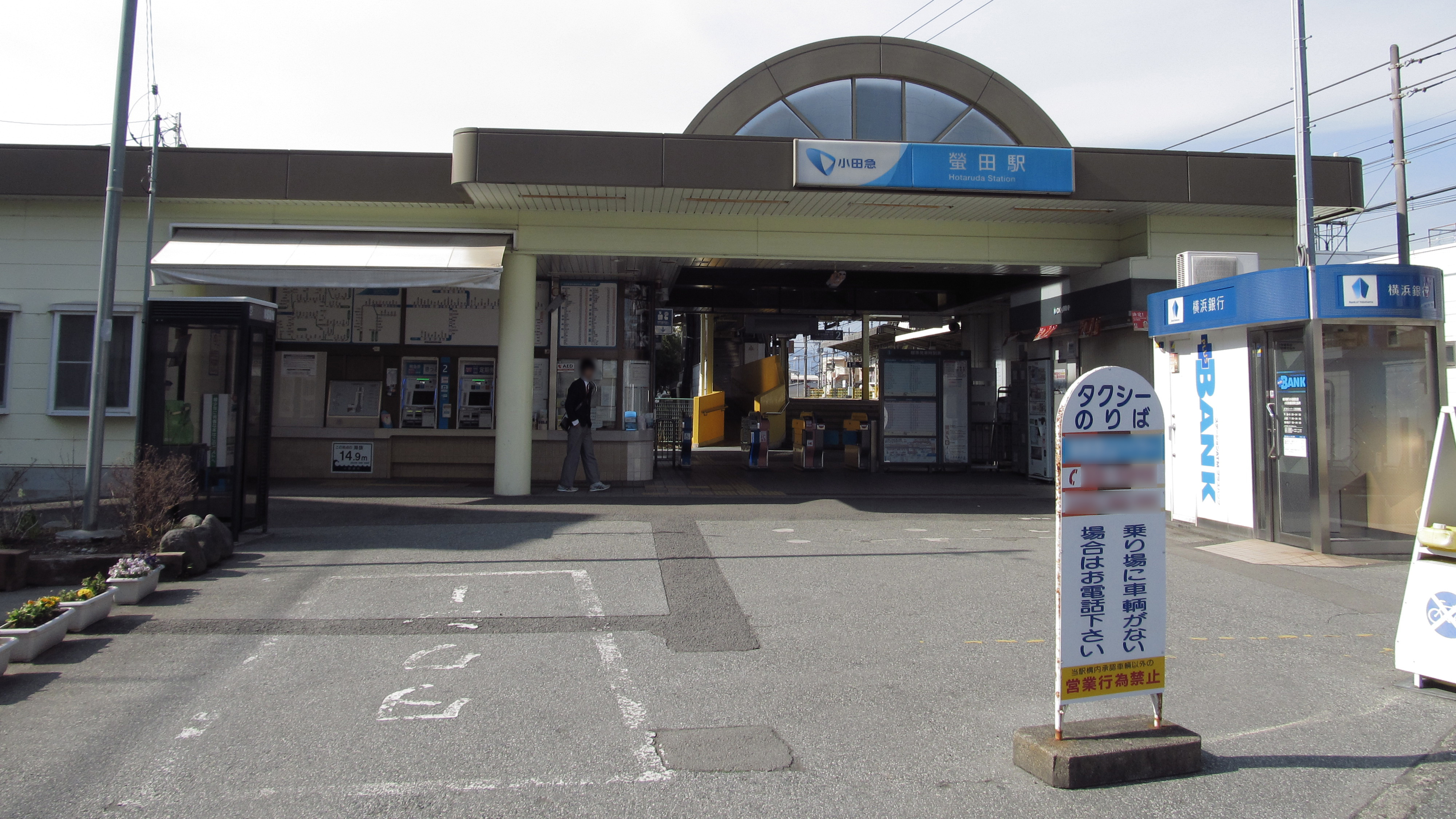 The west-side building of Hotaruda Station on the Odakyū Electric Railway Odawara Line in Odawara city, Kanagawa, Japan